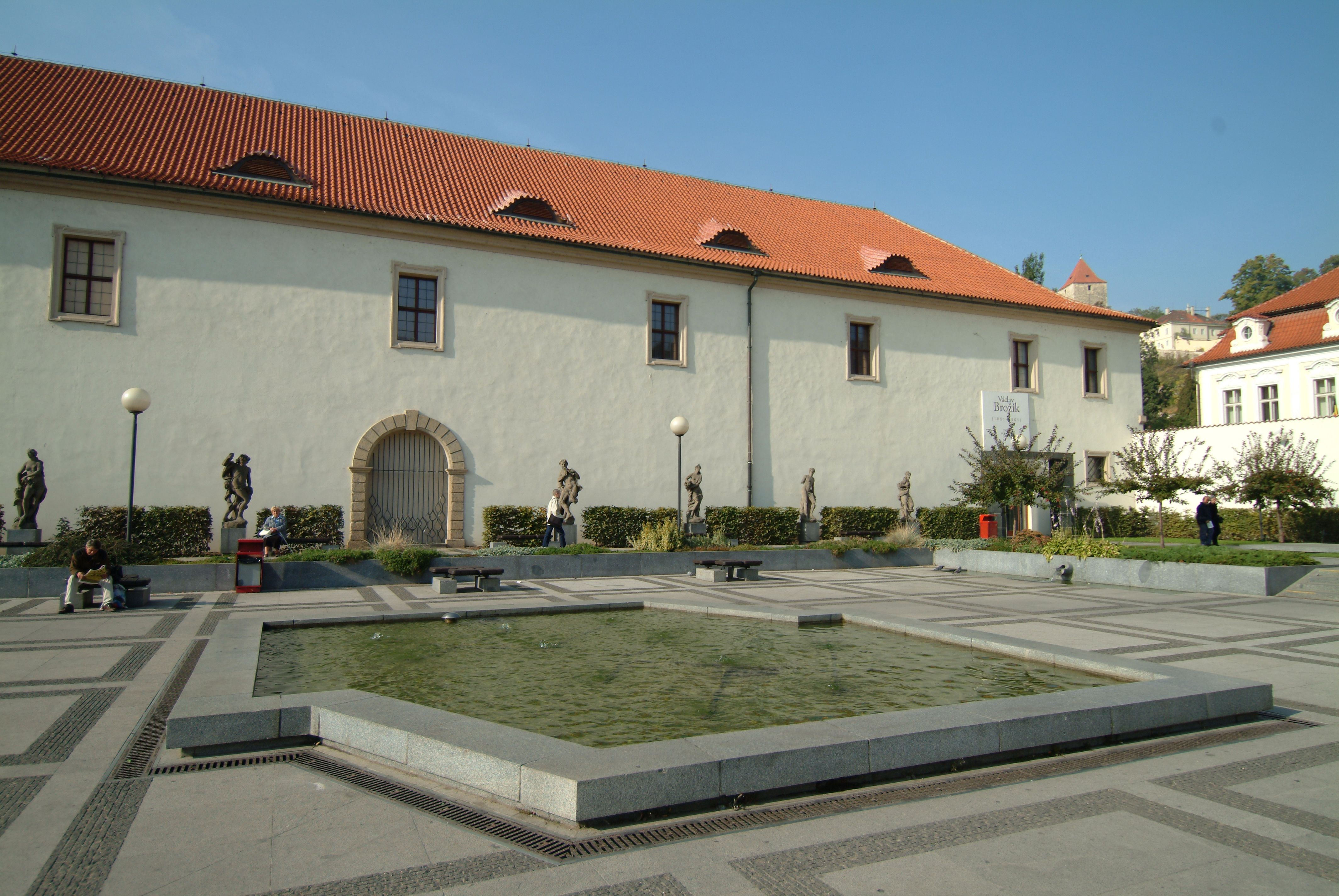 The stables of the Wallenstein Palace host temporary exhibitions for the National gallery in Prague.